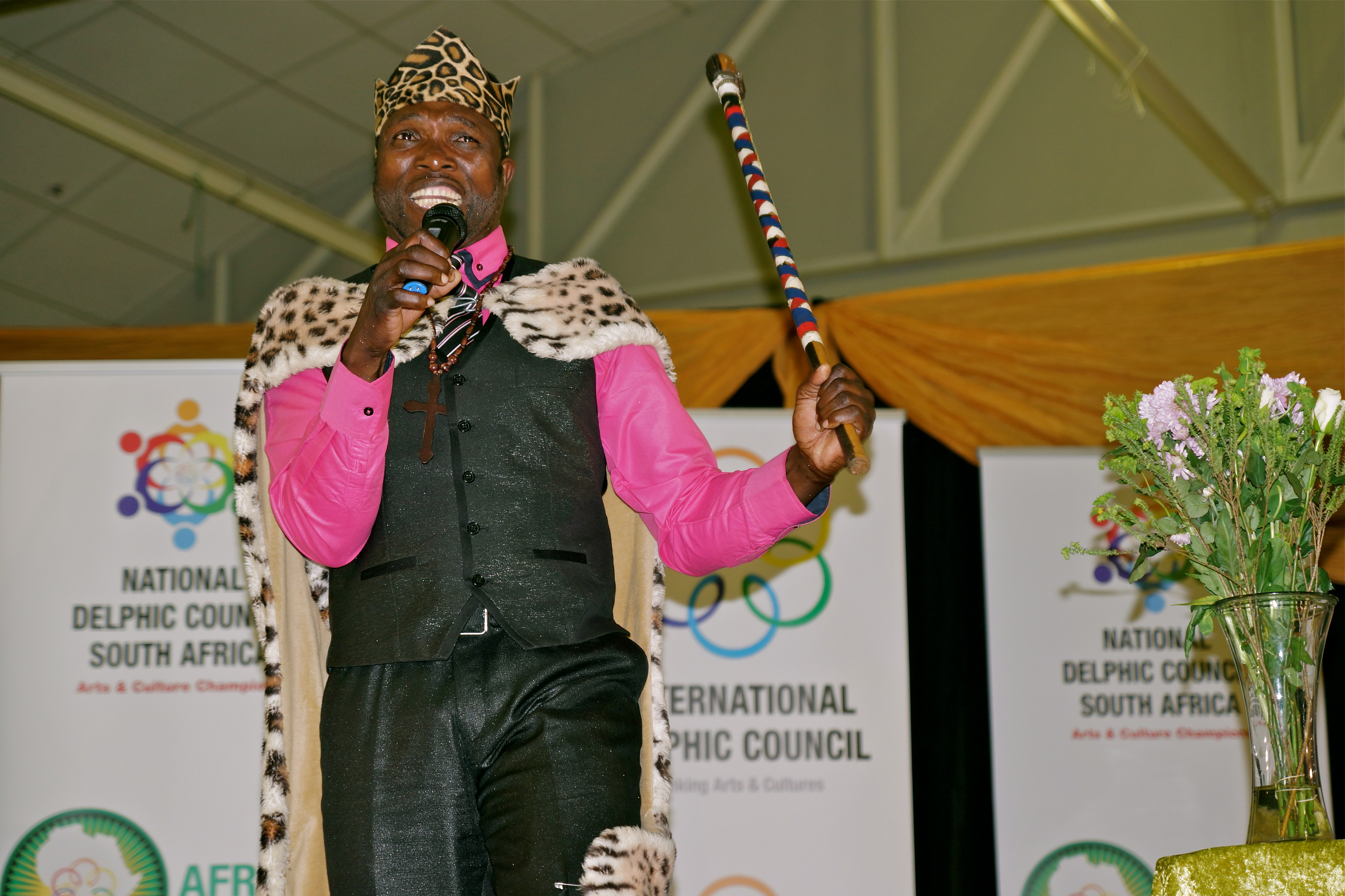 Special Delphic Summit 2014 South Africa